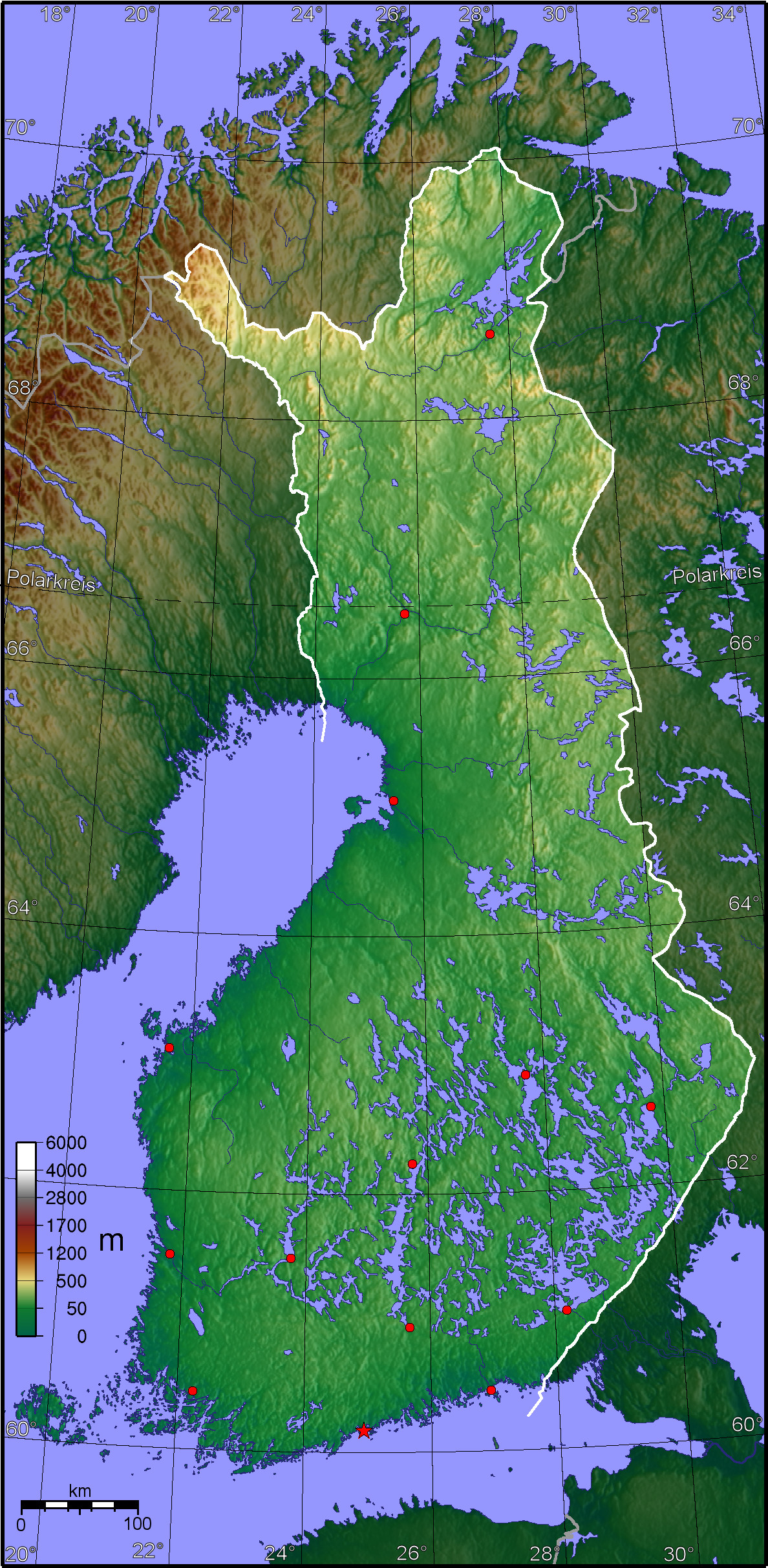 Topographic map of Finland (blank version)